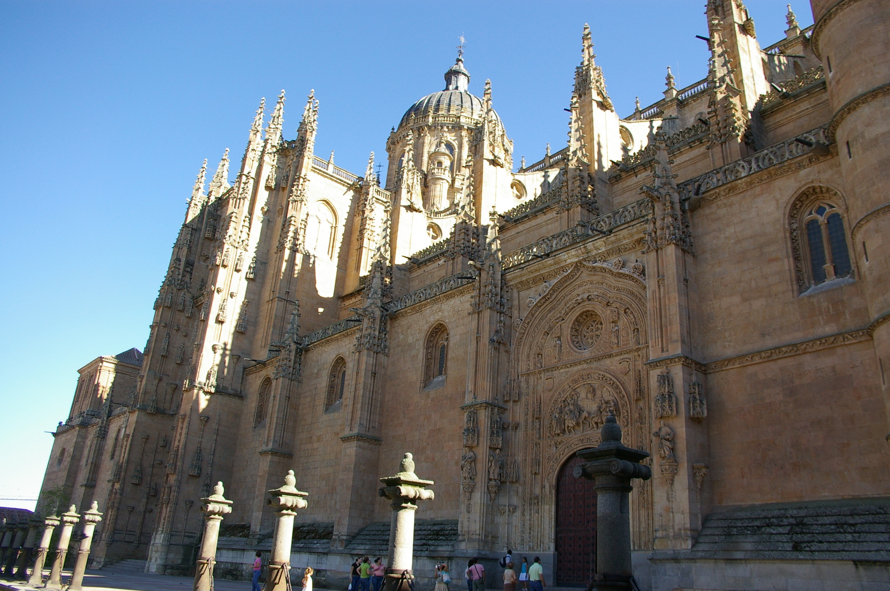 Front view of the new Cathedral of Salamanca